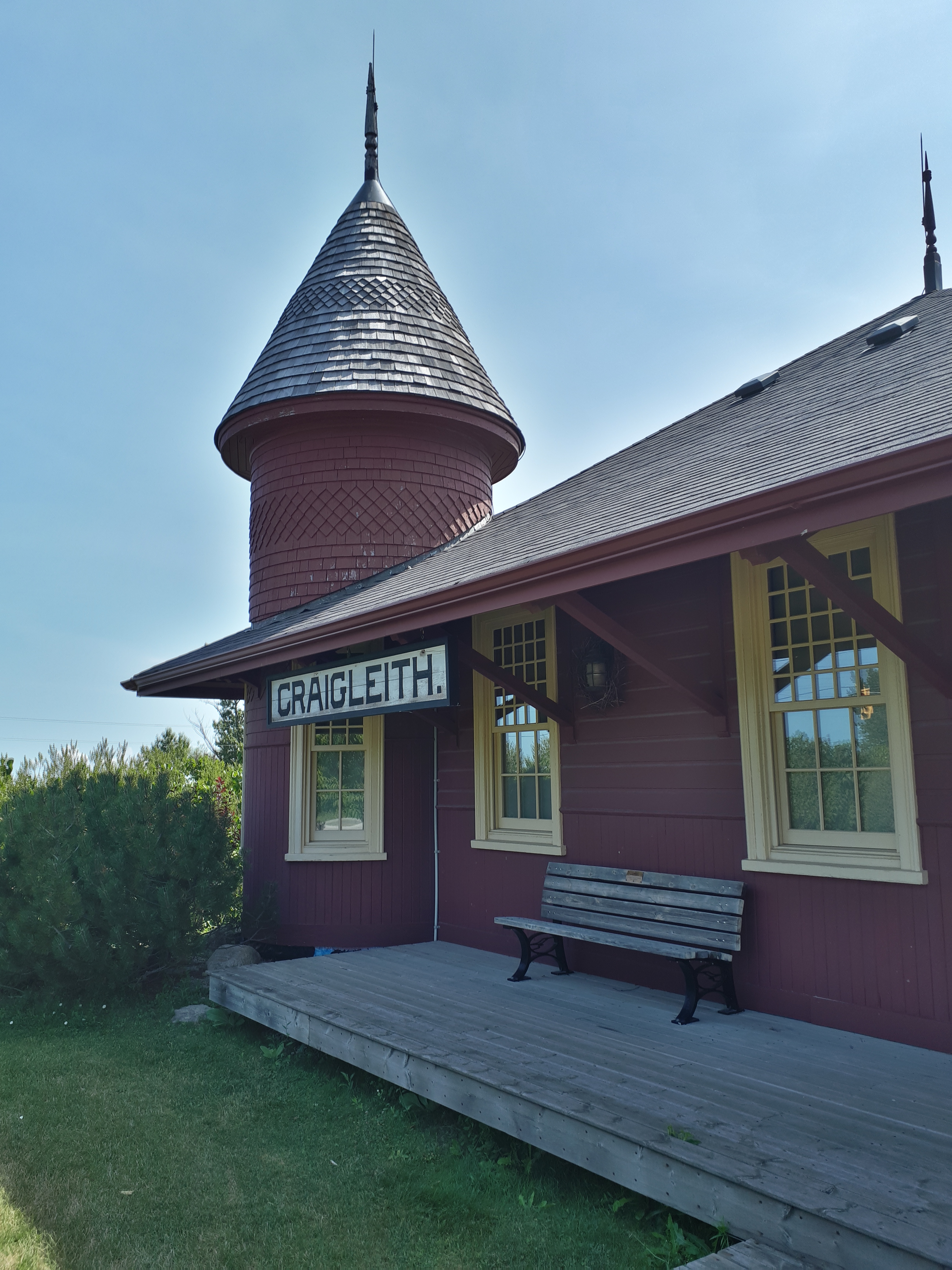 Side view of the station, showing the tower.